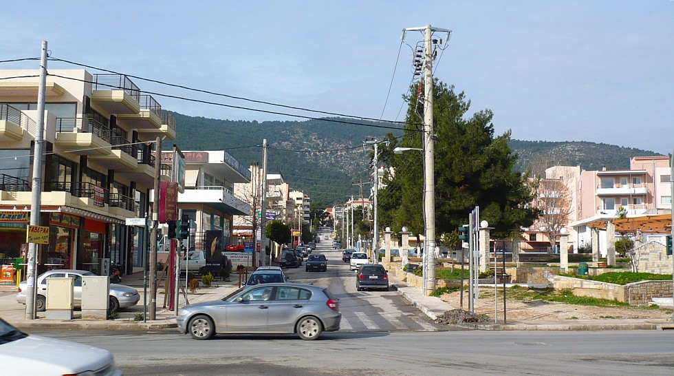 The picture depicts the center of Glika Nera.